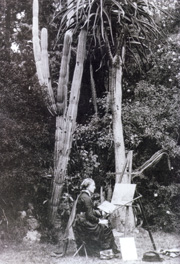 Portrait of Marianne North (1830-1890)